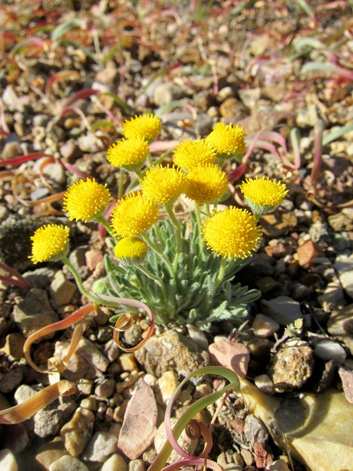 Erigeron aphanactis, Eureka County, Nevada, USA. This photo is in the public domain and may be freely used for any purpose.